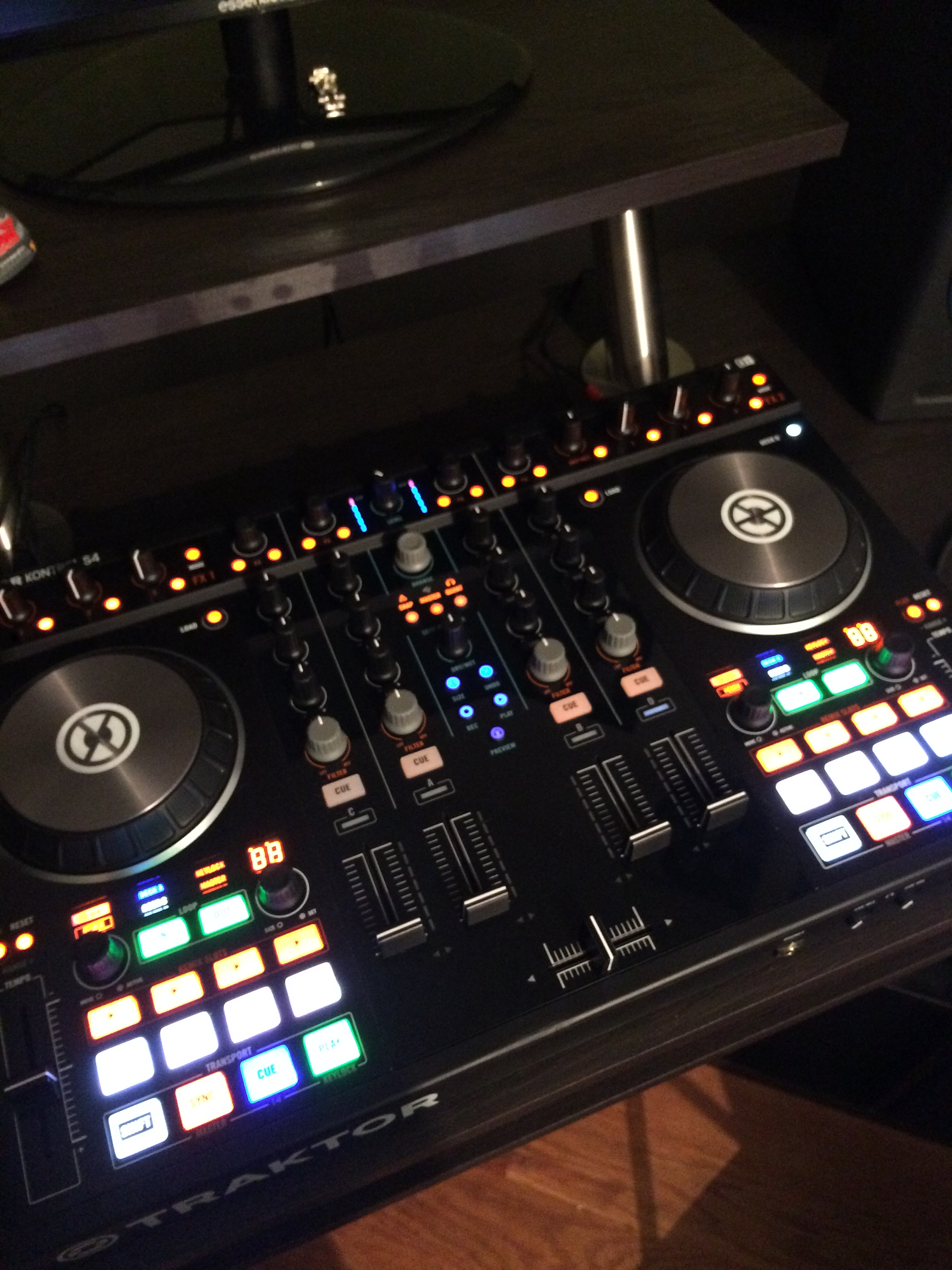 Traktor Kontrol S4